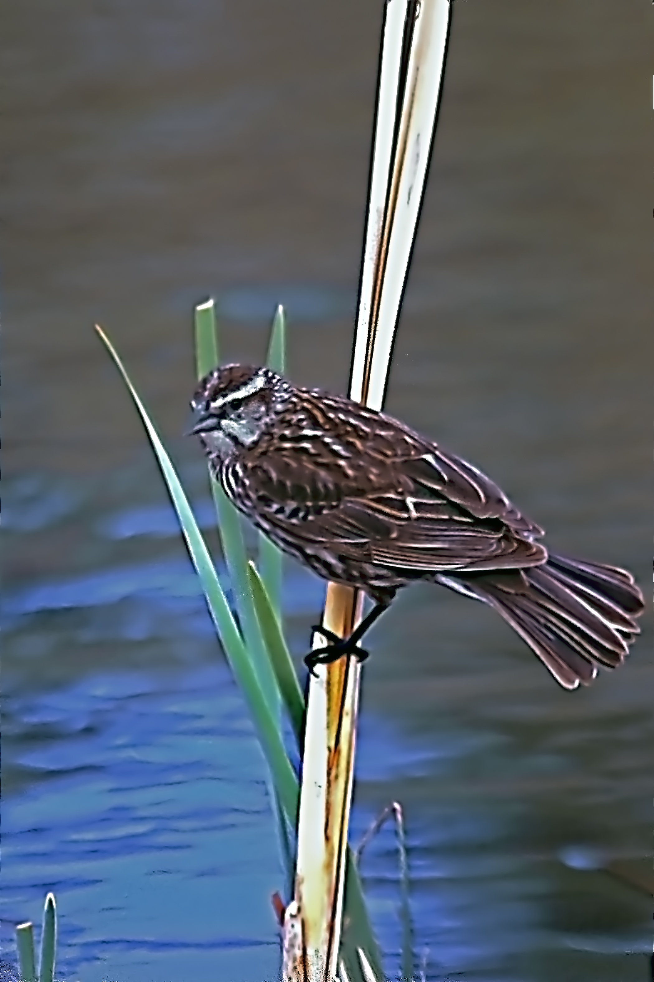 Both the males and females of this species are so interested in each other in the spring that they forget to flee from the camera.